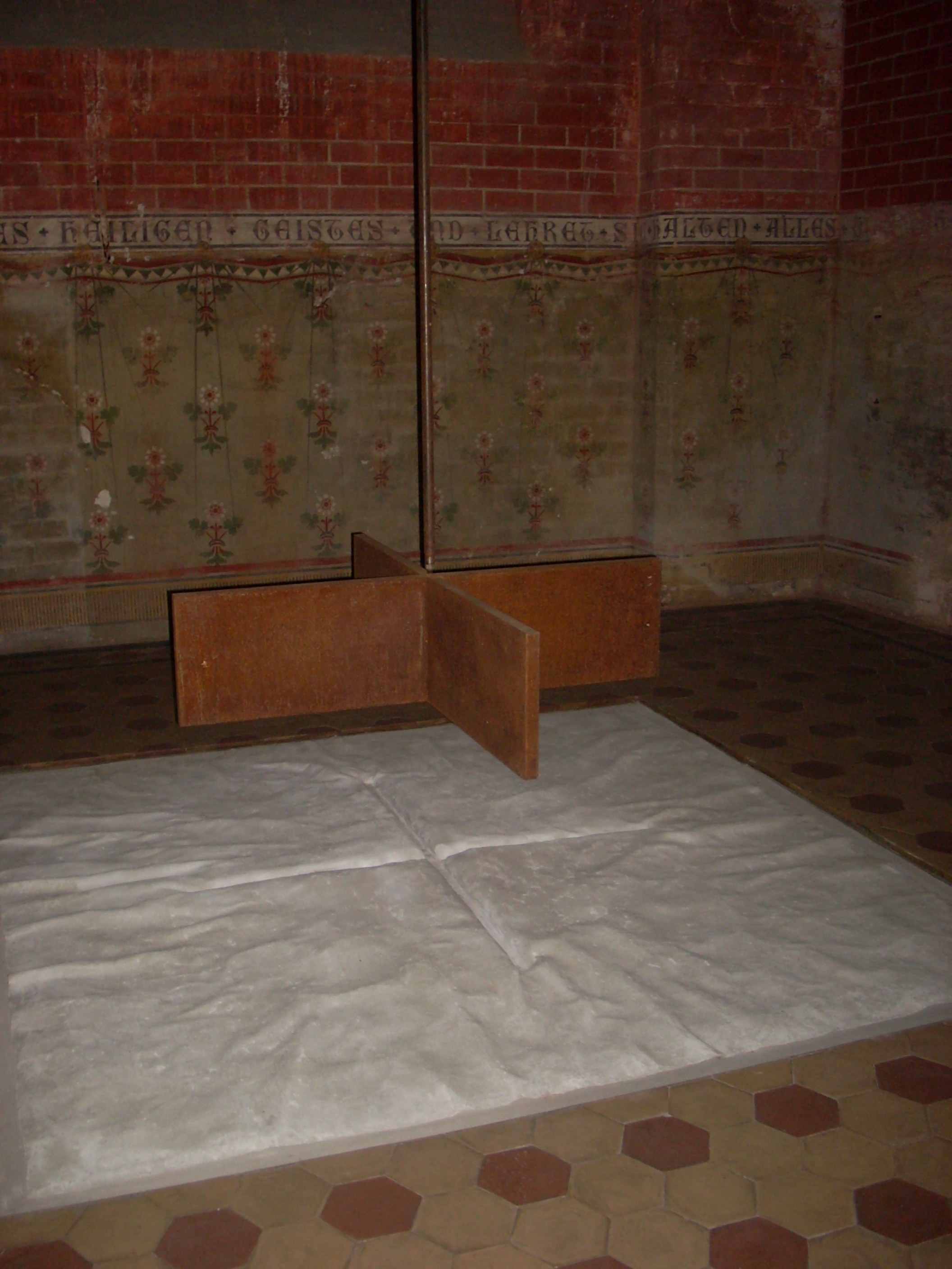 Memorial in the church Sternberg in Mecklenburg